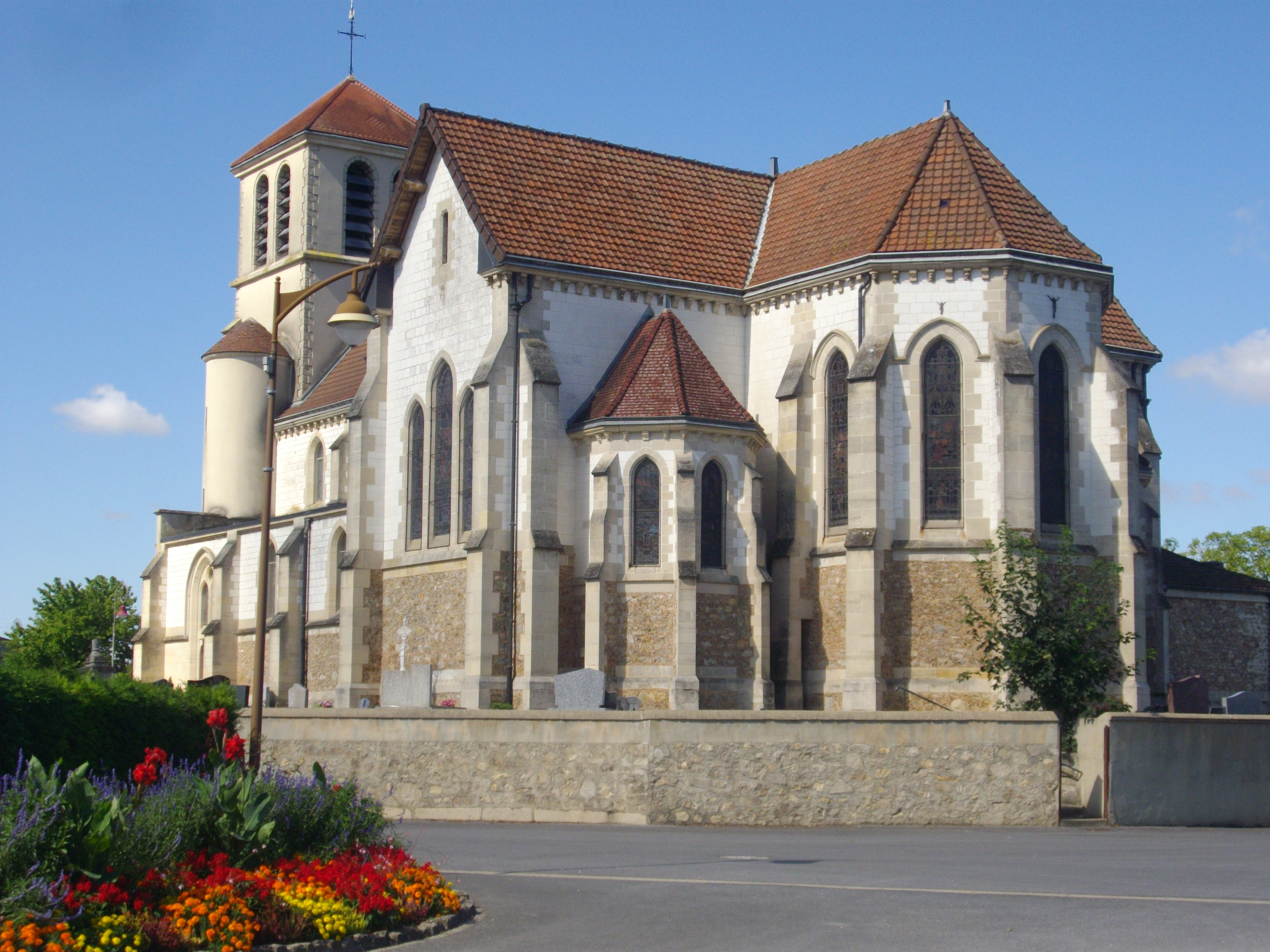 Saint Leodegar church of Mairy-sur-Marne (Marne, France), apse